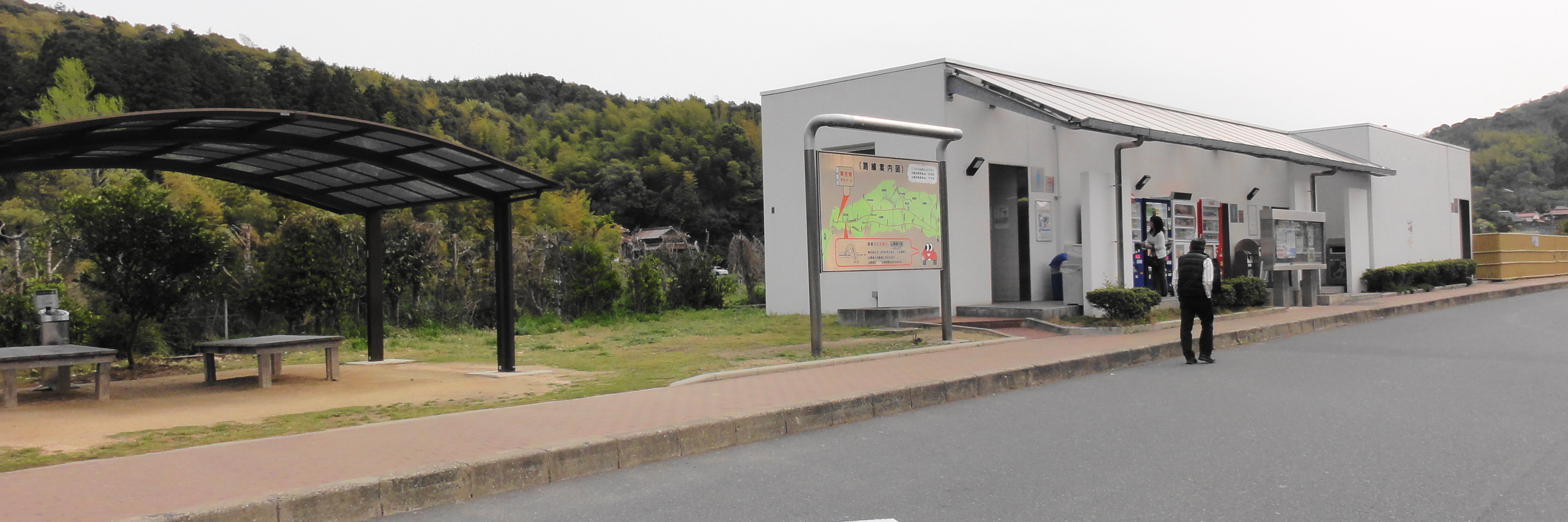 Isa Parking Area,Yamaguchi prefecture,Japan